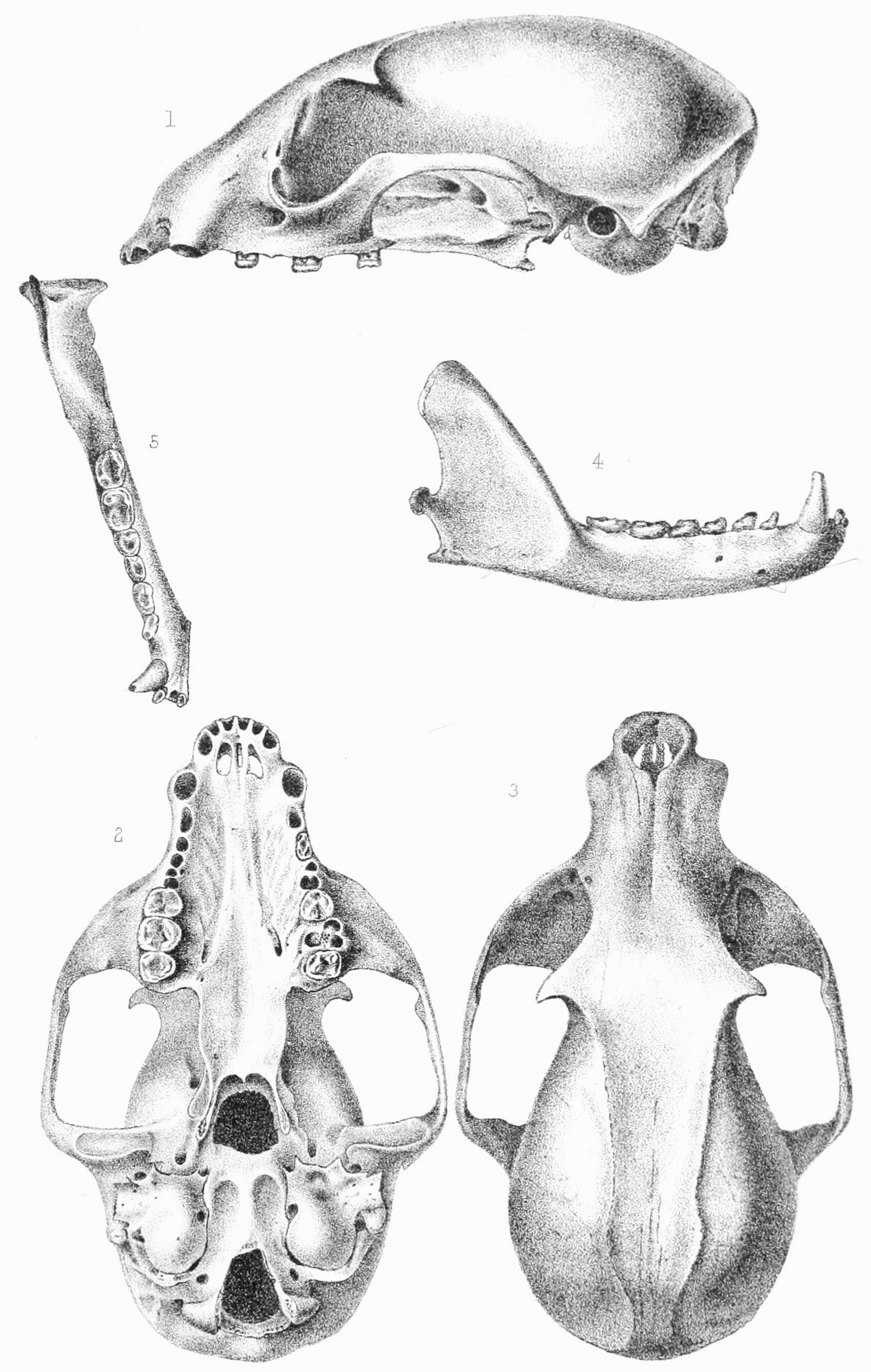 Bushy-tailed Olingo's skull (Bassaricyon gabbii)